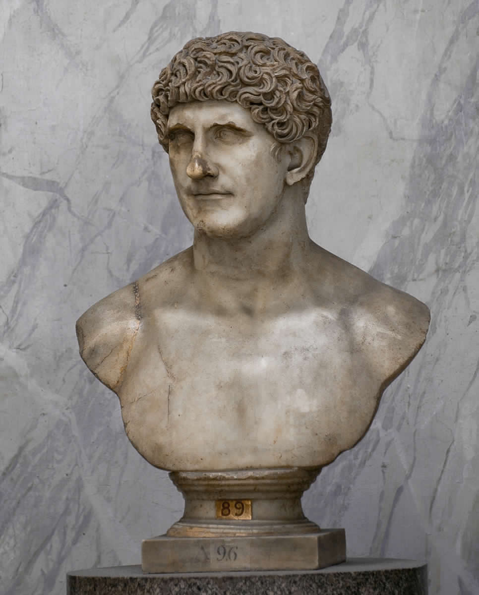 Roman male portrait bust of Marcus Antonius. Fine-grained yellowish marble. Flavian age (69—96 A.D.). Rome, Vatican Museums, Chiaramonti Museum. Height: 68 cm. Found near Tor Sapienza before Porta Maggiore in 1830 or 1831.